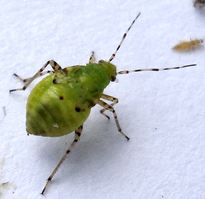 Nymph Liocoris tripustulatus On: Giant hogweed Location: Lincoln City Site: Backies field